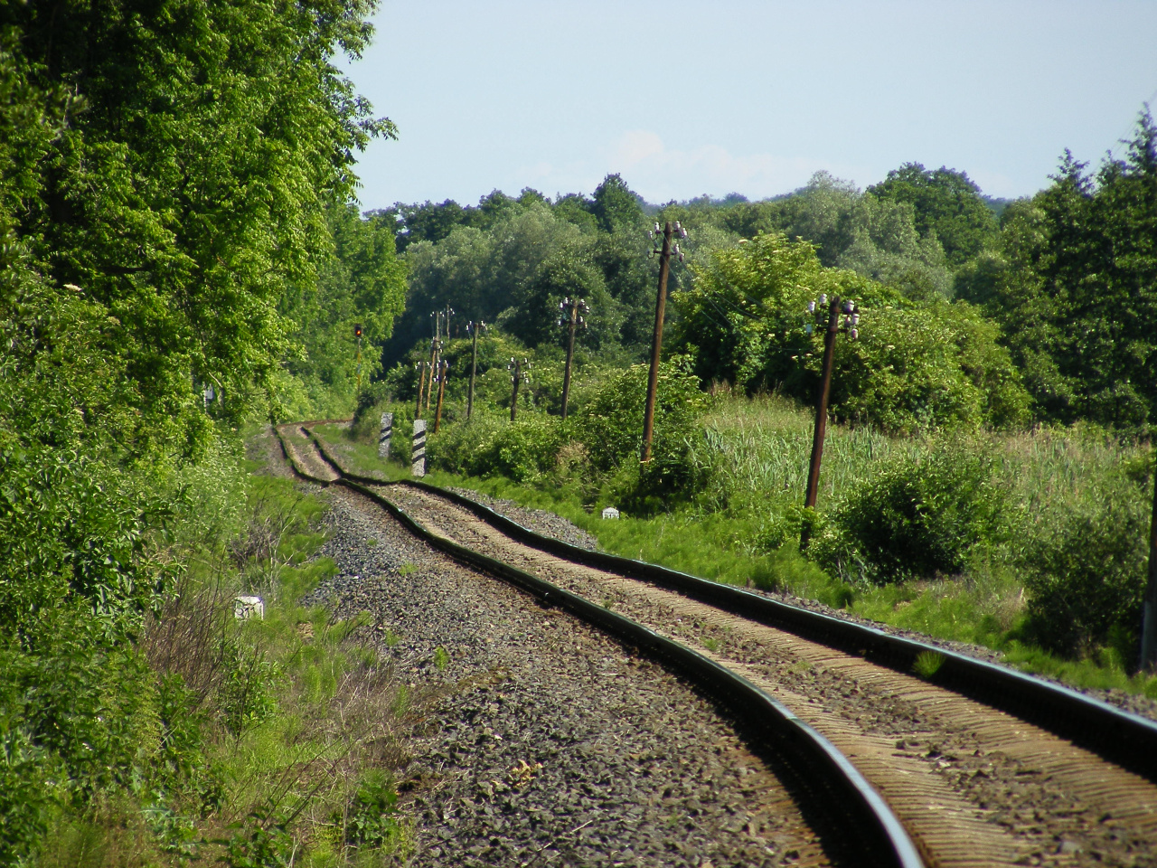 Errors of the track geometry near Pamuk and Somogyvár